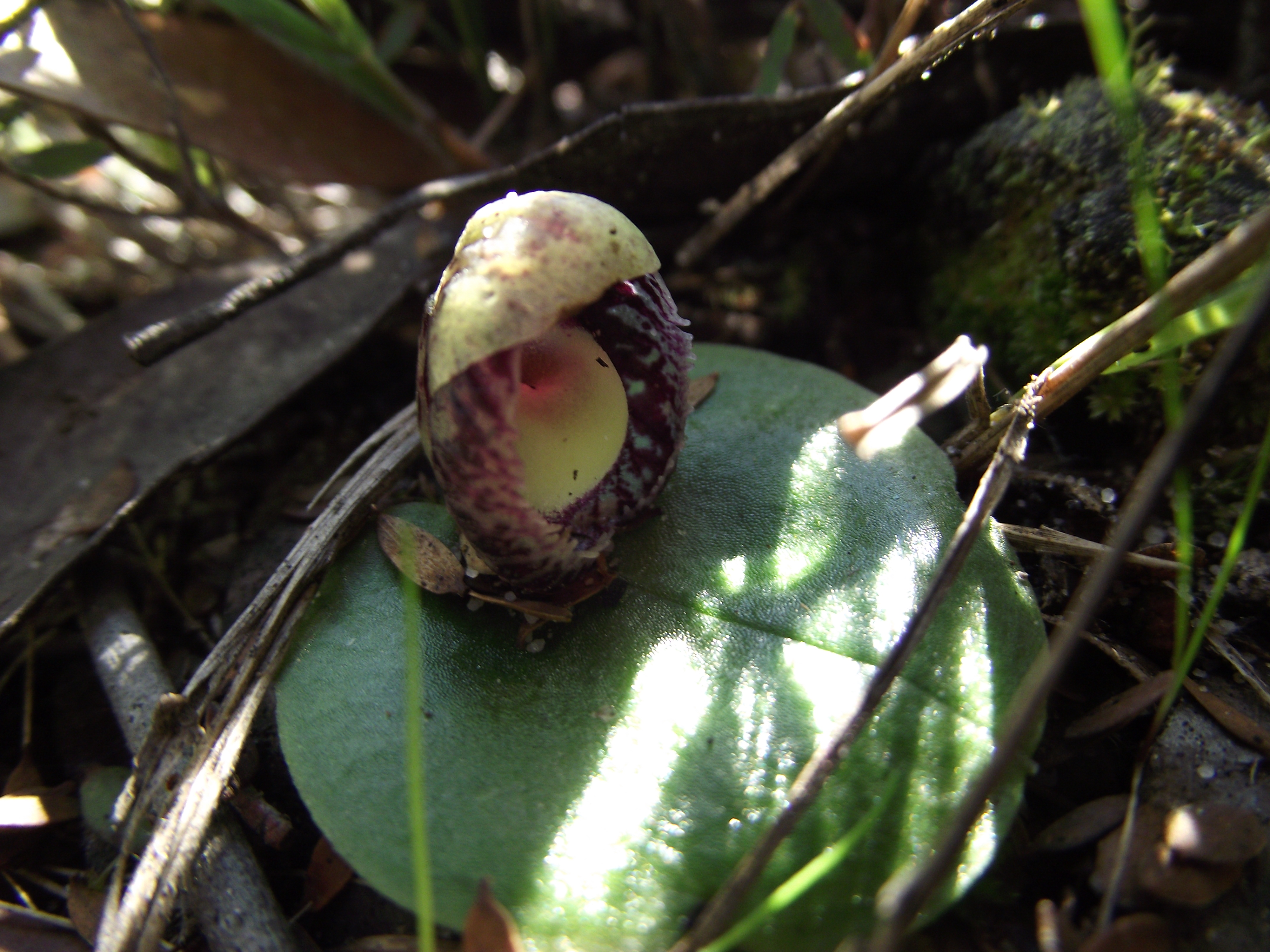 Australian orchid, the Slaty Helmet Orchid (Corybas incurvus)